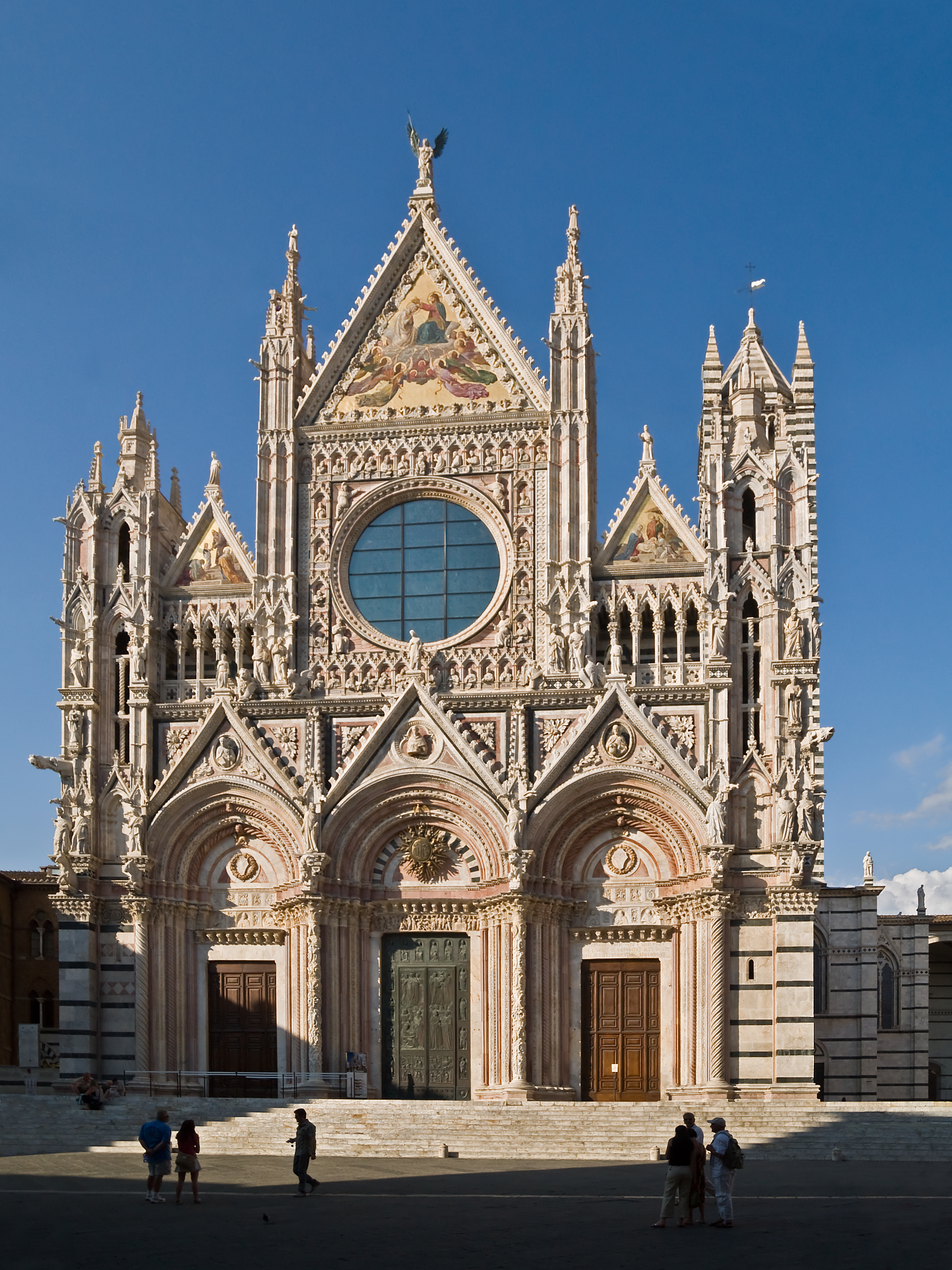 Facade of the Cathedral of Siena, currently called Duomo di Siena (Tuscany, Italy)